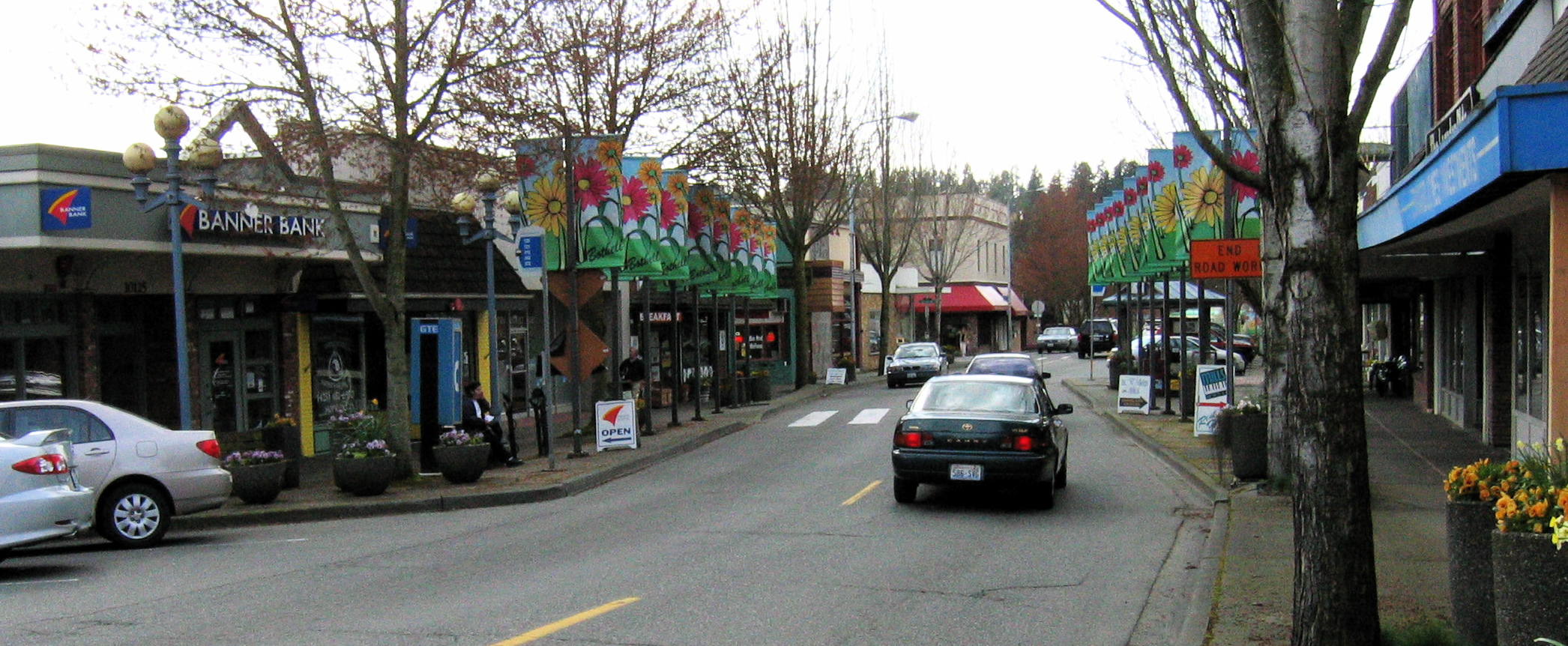 Bothell, Washington's Main Street.